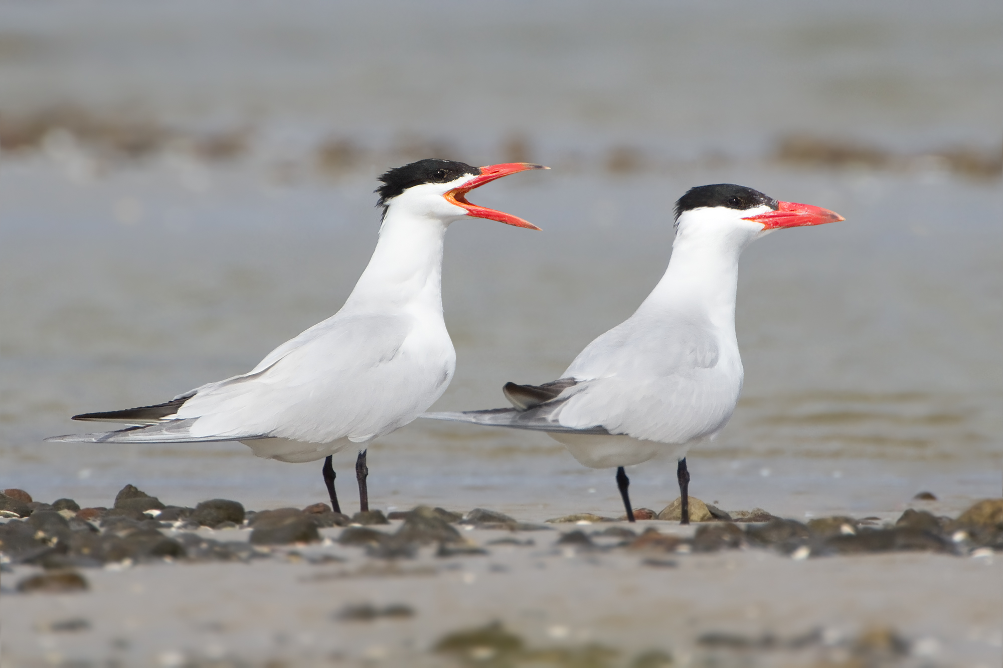 Caspian Tern (Hydroprogne caspia), Ralph's Bay, Lauderdale, Tasmania